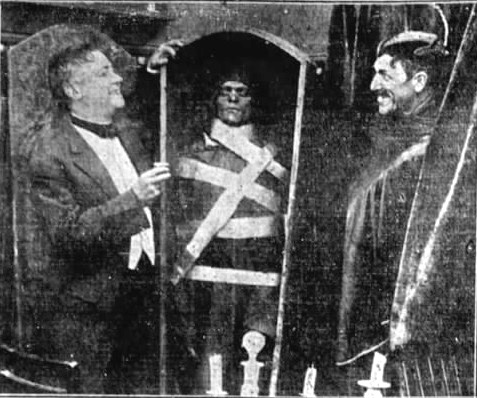 In a scene from the film, St. Elmo drinks with the devil over the body of his cousin.